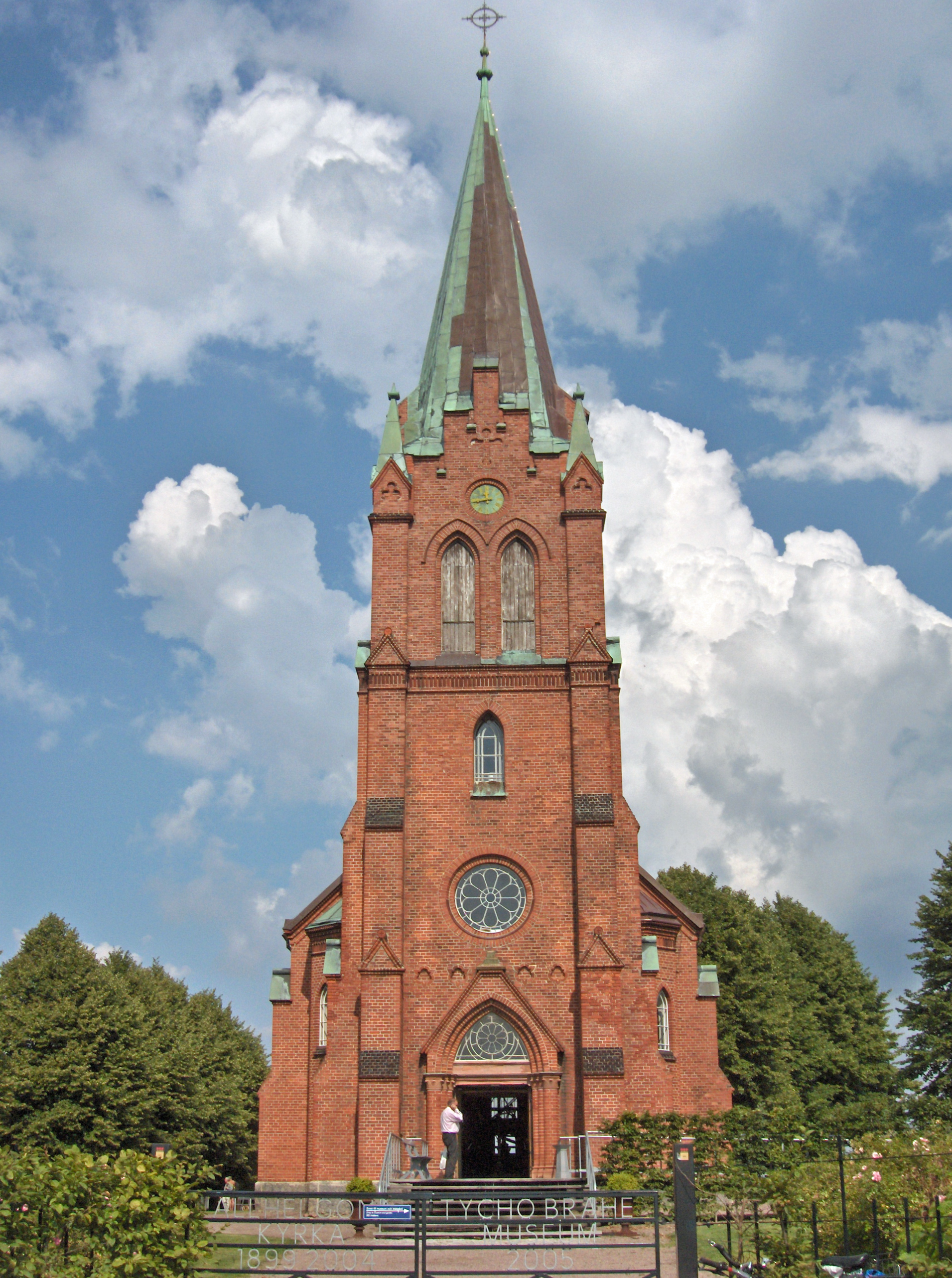 Tycho Brahe museum on Ven, Sweden.